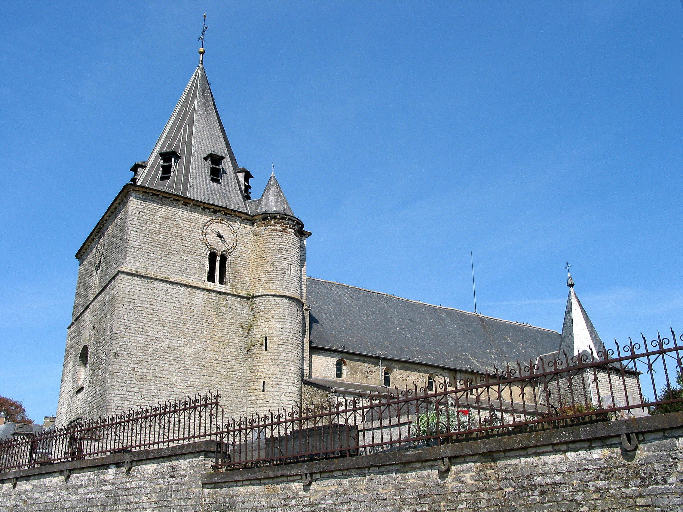 Tourinnes-la-Grosse (Belgium), the St. Martin’s church (XIth century).